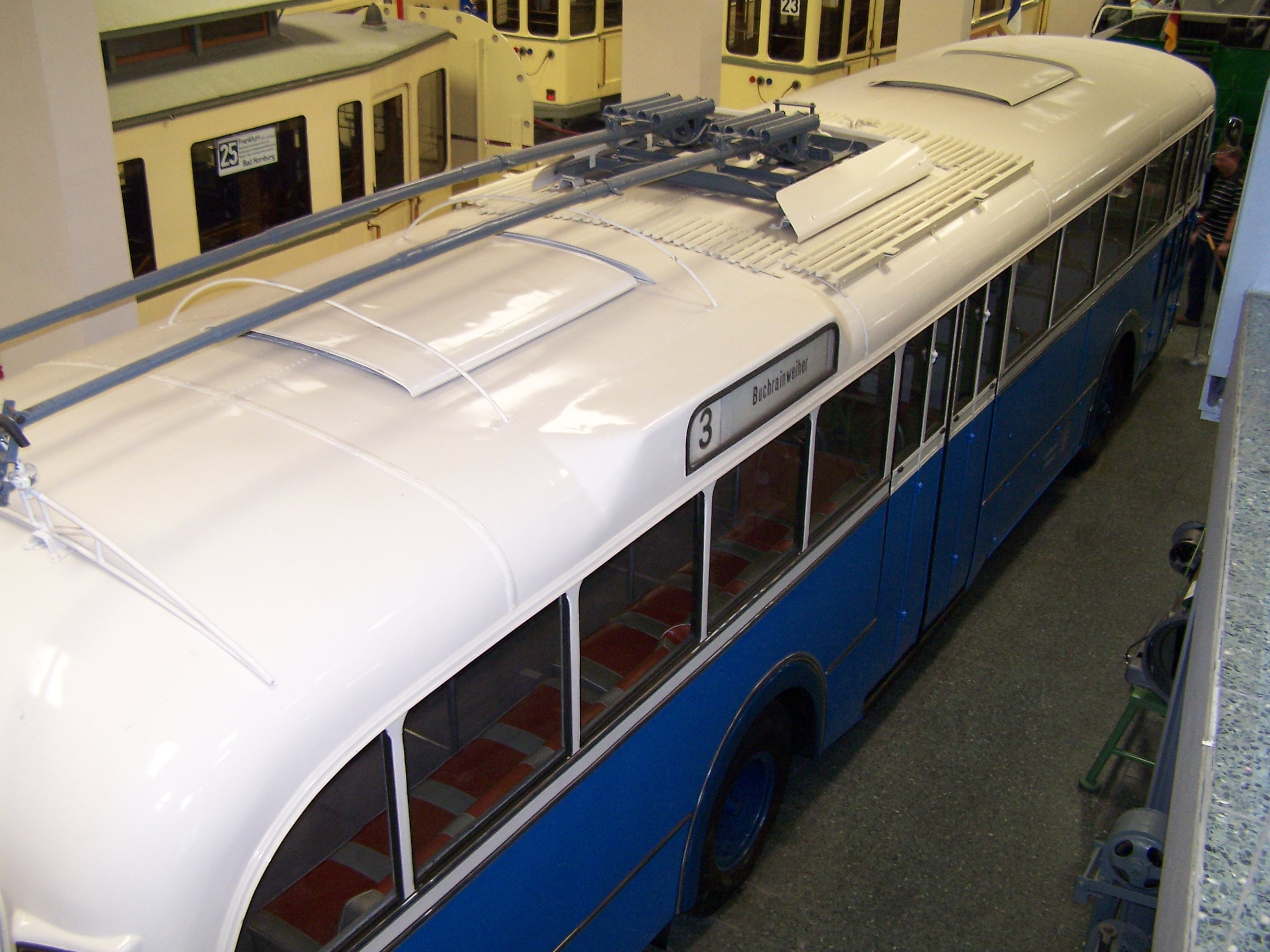 trolley bus of the Stadtwerke Offenbach in the Frankfurt on Main Transport Museum in Frankfurt am Main--Schwanheim